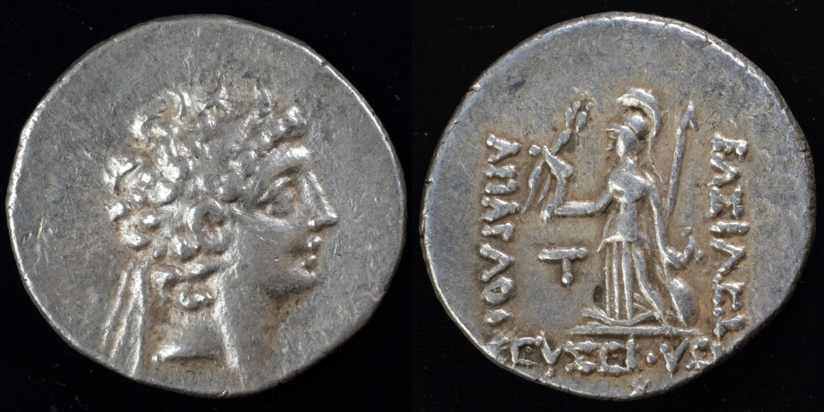 silver drachm of Ariarathes VIII struck in Eusebeia, 99-98 BC obverse: diademed head right reverse: Athena holding spear and Nike, shield at her feet legend: BAΣIΛEΩΣ / APIAPAΘOY / EYΣEBOYΣ field: T (left), Λ (right), B (downright) reference: Simonetta (2007), 12 (Ariarathes V.)